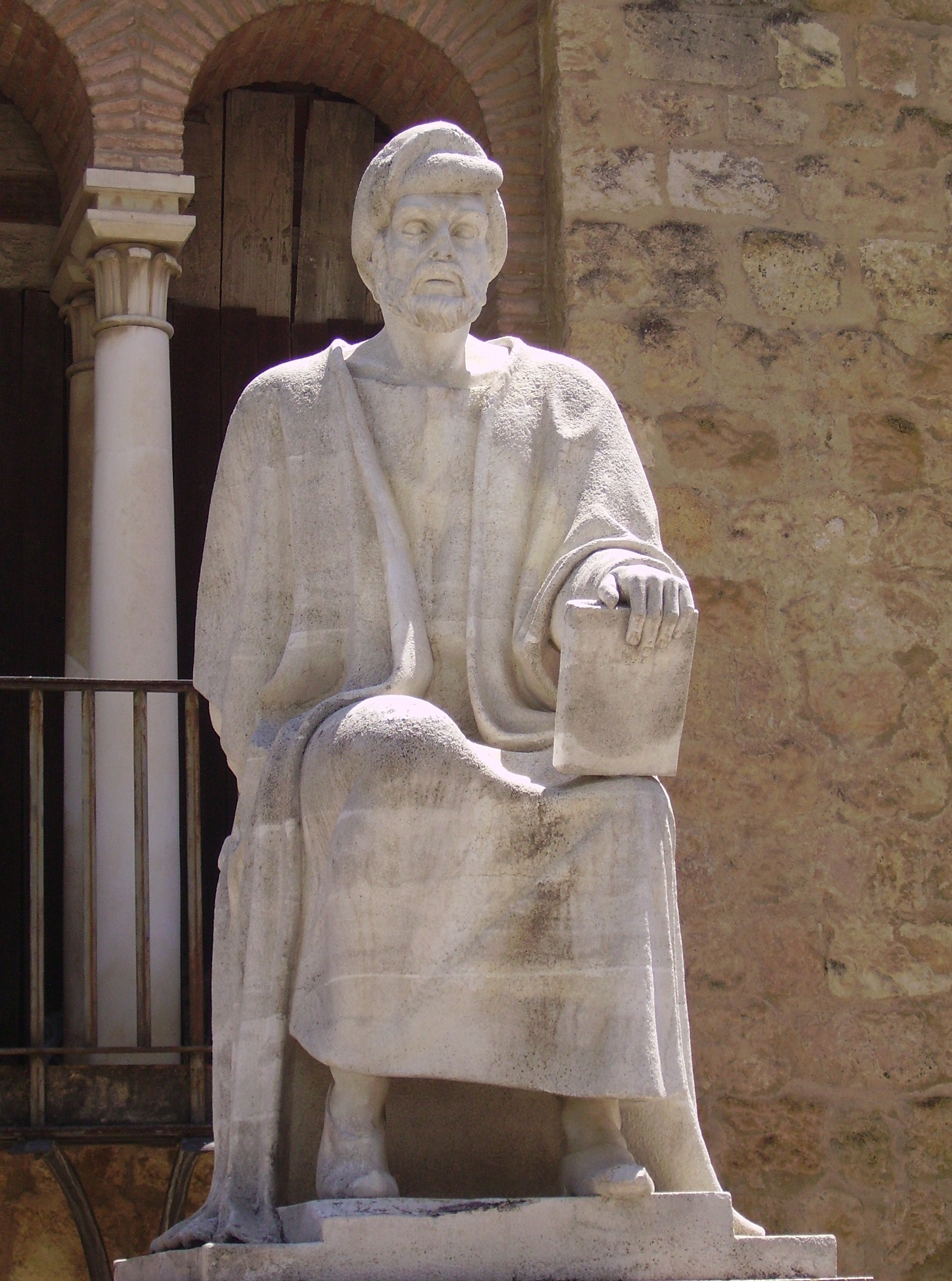 Averroes statue, in Córdoba (Spain).